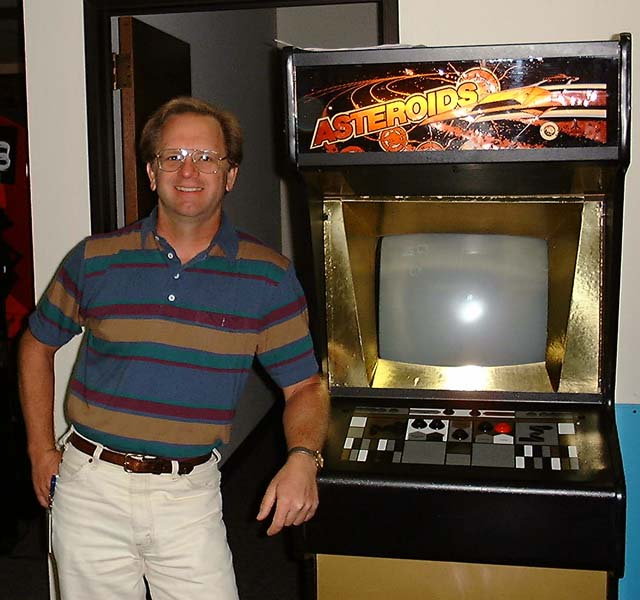 Ed Logg standing next to a very rare "Gold Asteroids" cabinet at Atari. Photo taken Spring 1999 at Atari Games in Milpitas, California.